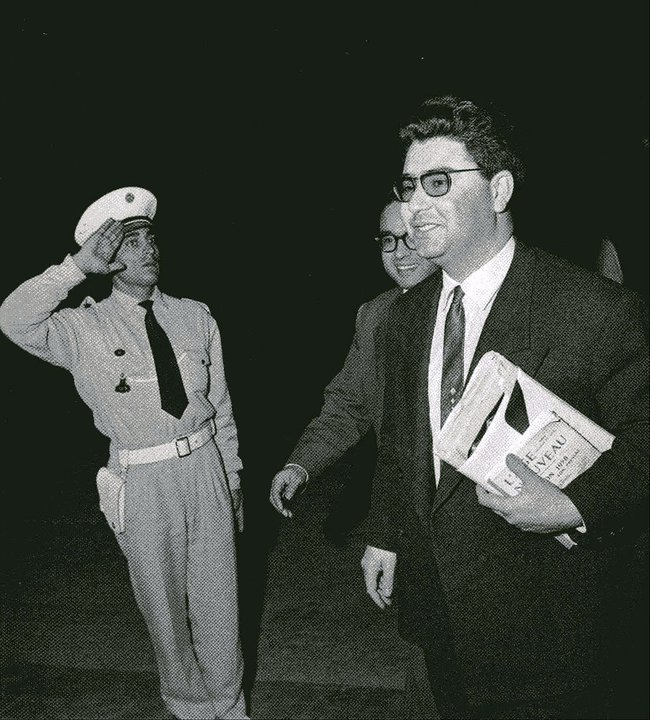 Ahmed Ben Salah